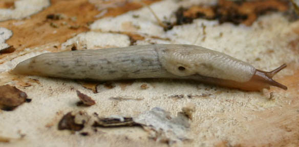 Right side view Deroceras praecox (Determination confirmed by dissection.) Locality: CZ, Moravia, PR Panské louky, 7 June 2004